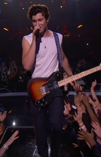 Shawn Mendes Performs "In My Blood" MTV VMAs in 2018